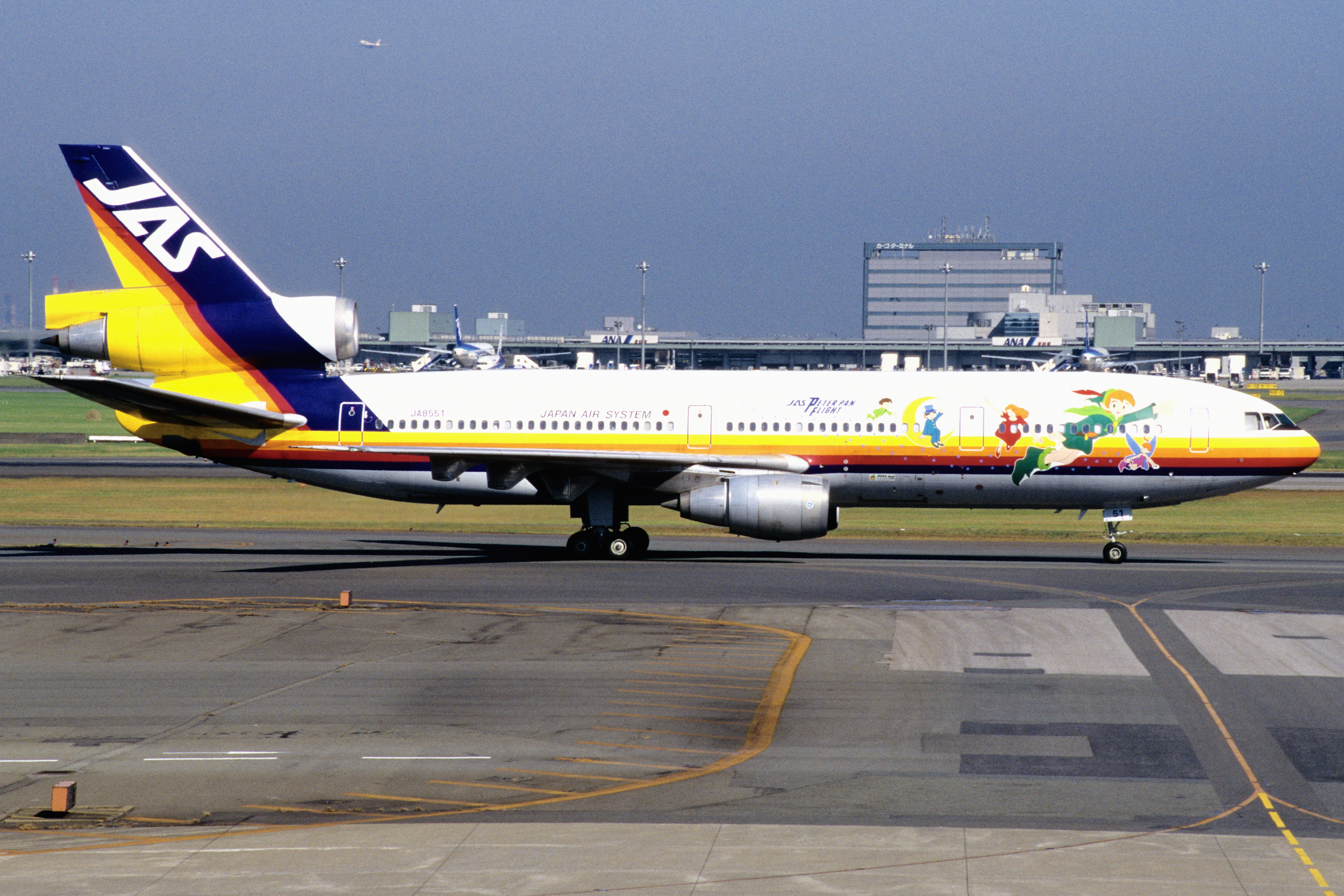 Historic Photo